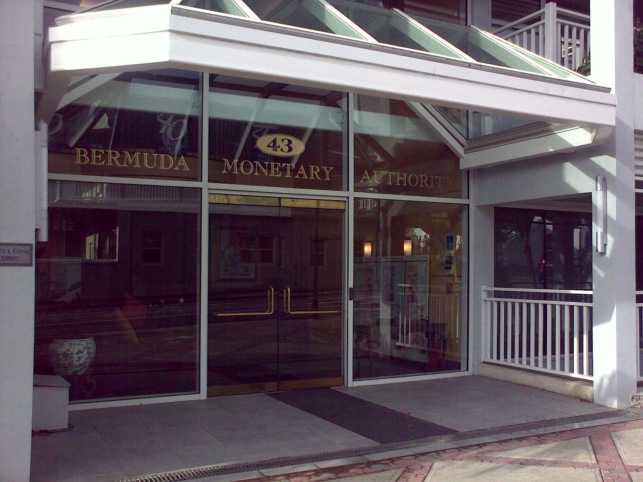 Bermuda Monetary Authority 43